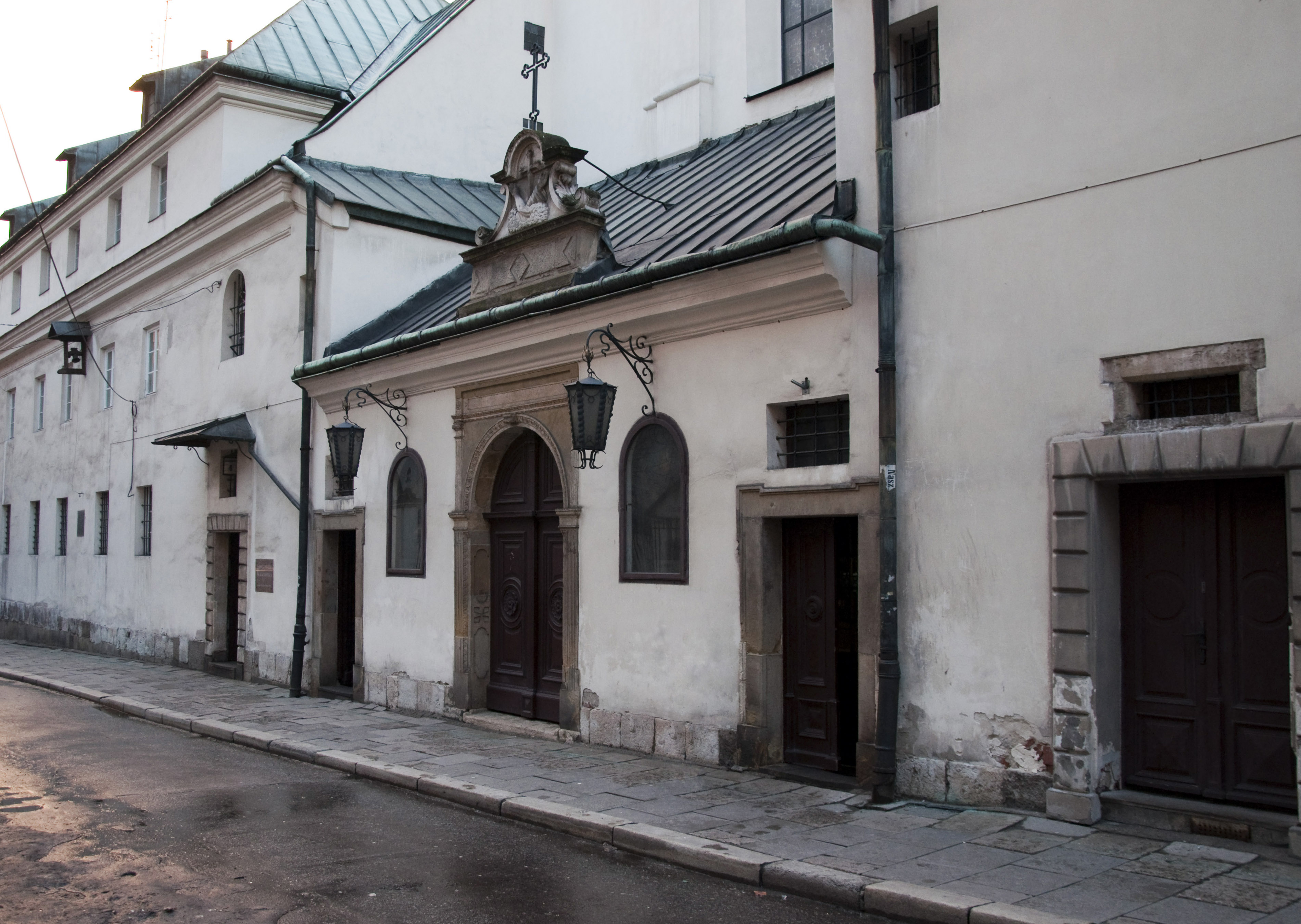 Church of St. Casimir the Prince in Kraków